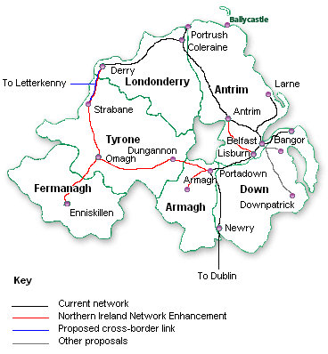 Map showing proposed Northern Ireland Network Enhancement (NINE)